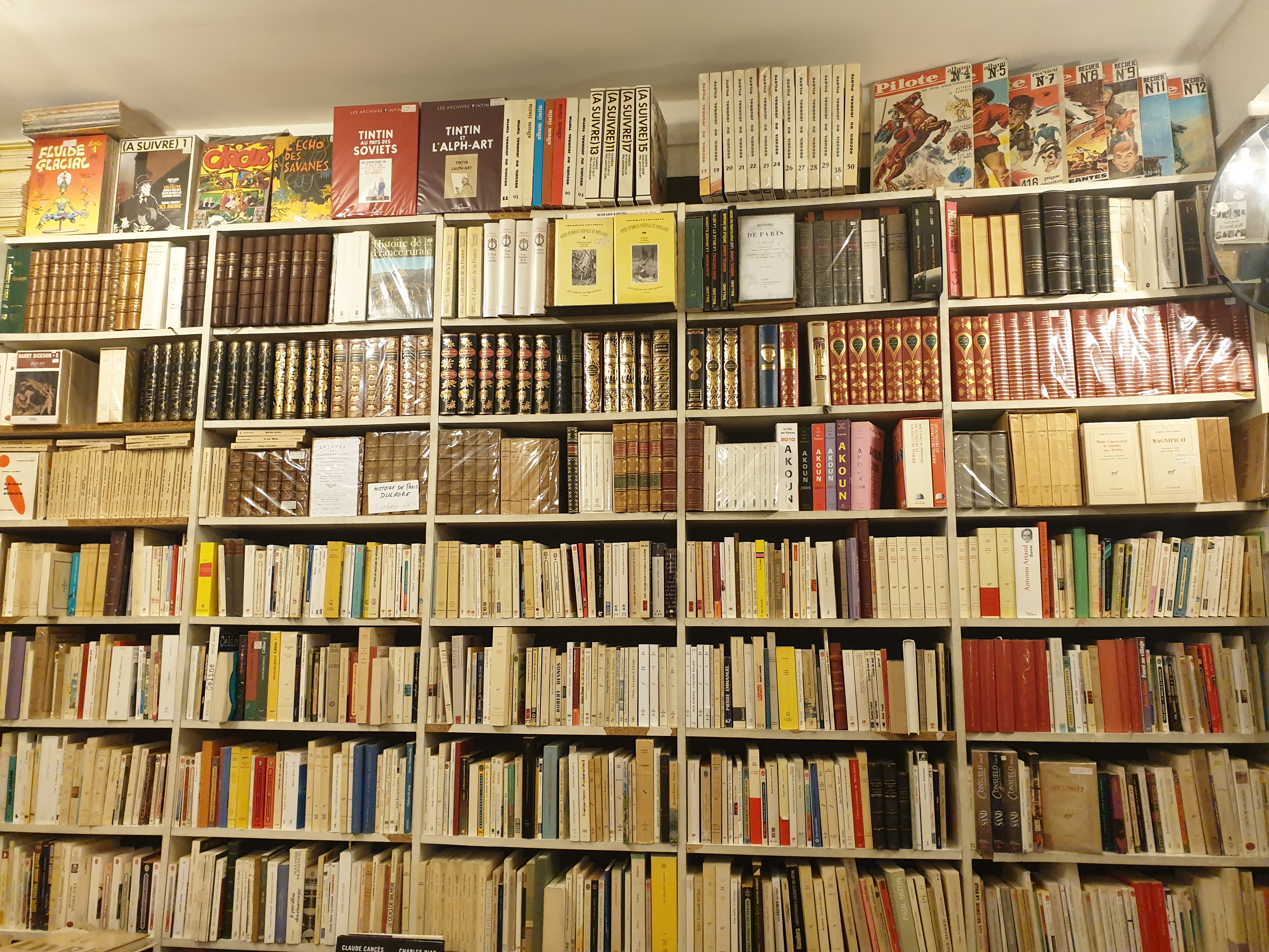 Books in a bookshop at Paris - 2020- 01-17.